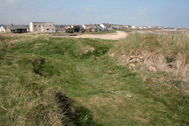 Site of Chapel of Ebb's Nook Situated on a narrow strip of land the chapel remains dates back to the 13th century with evidence of an earlier building. The name indicates an association with St. Ebba, a 7th century Anglo Saxon princess and a friend of St. Cuthbert.